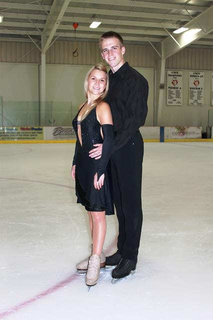 Justyna Plutowska and Peter Gerber, Novi, MI